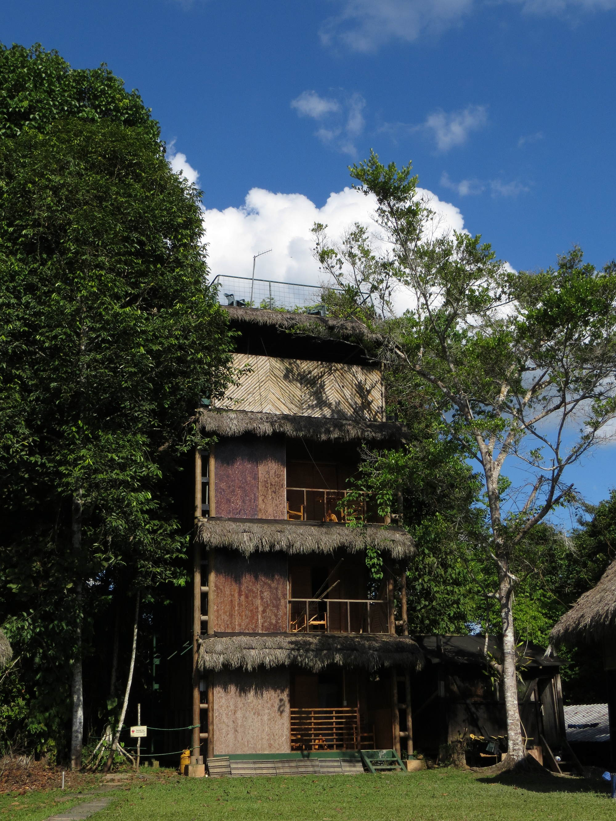 Cuyabeno Wildlife Reserve canopy tower of the Cuyabeno Lodge, the first lodge in the reserve and therefore on the best location on a seasonal island in the Cuyabeno Lake. Аҧсшәа: Torre de canopy del Cuyabeno Lodge de la Reserva Cuyabeno, el primer lodge en la reserva y, por lo tanto, en la mejor ubicación en una isla estacional en la Laguna Cuyabeno